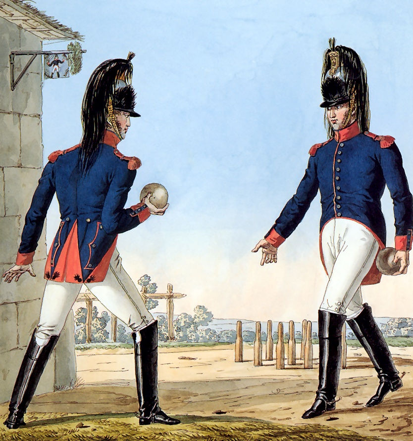 Part of a series chronicling the uniforms of Napoleon's Grande Armée.